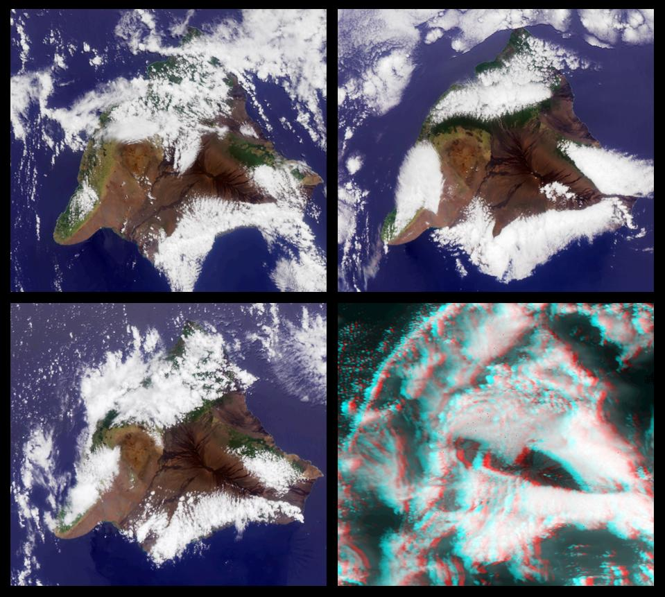 Photos of the Big Island of Hawaii, taken by the MISR, and rotated so that the North is on the left.